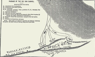 Rio San Gabriel Cutts